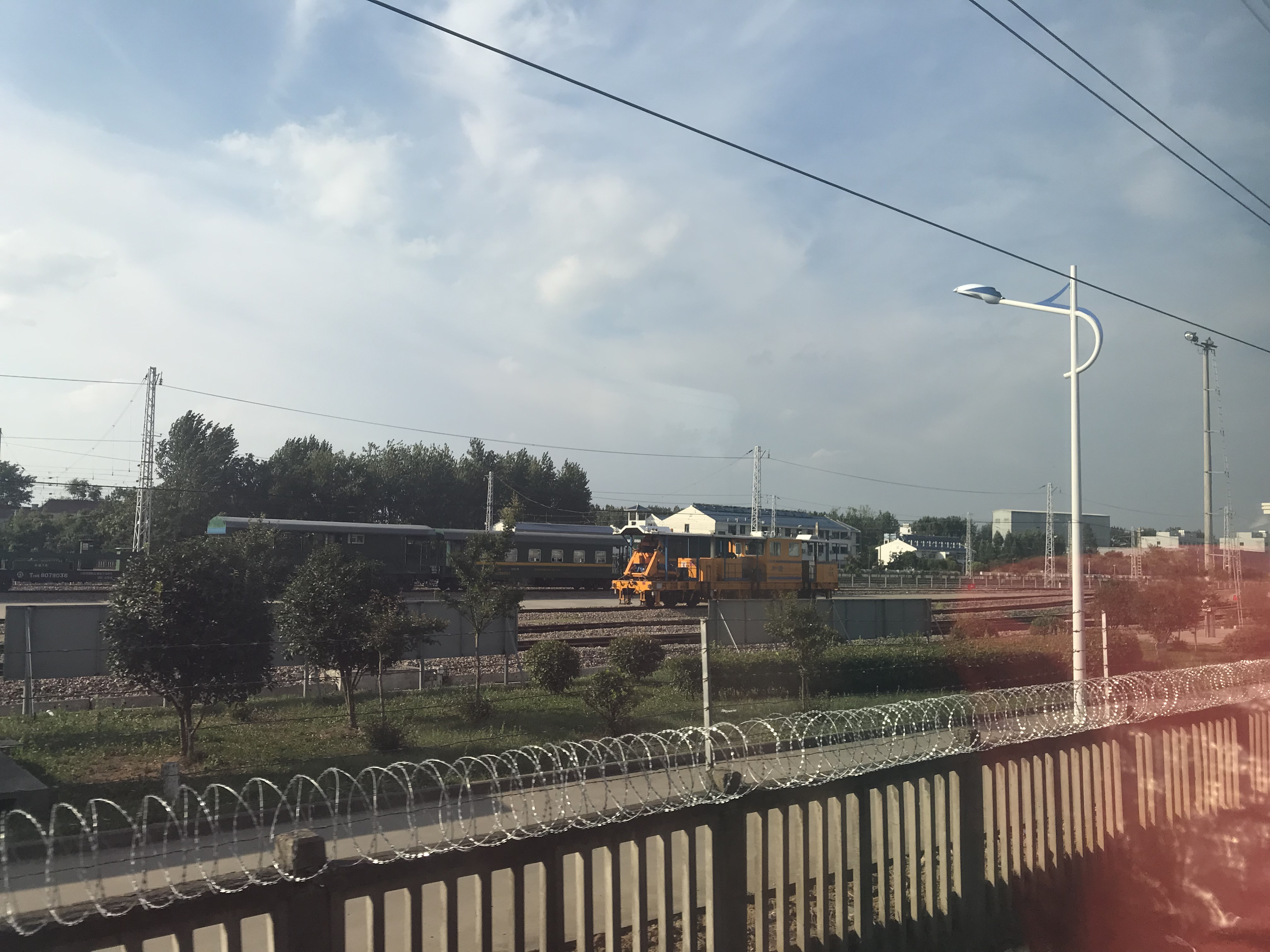 201806 Gaoli Base Center